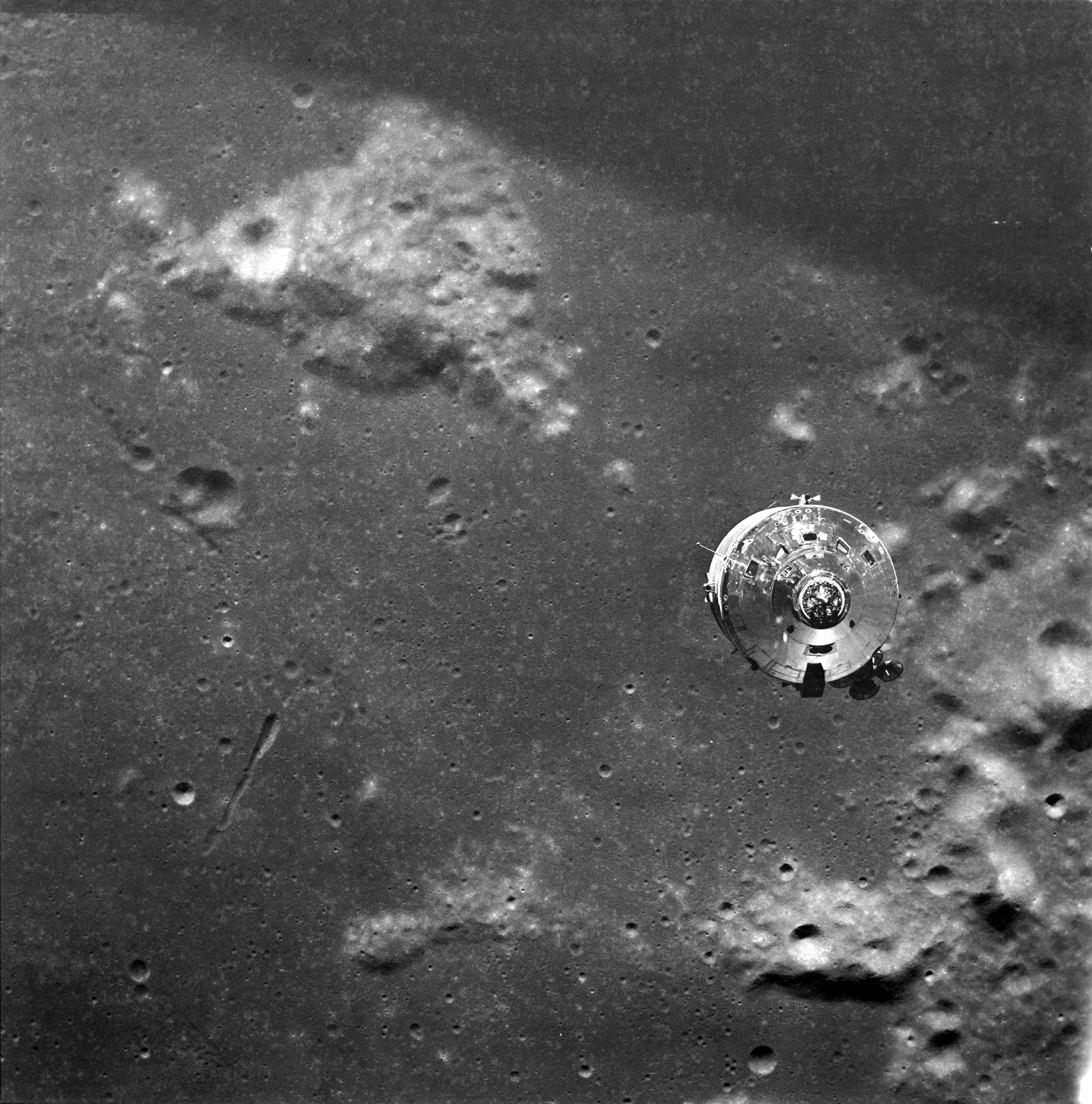 Apollo 10 Command/Service Module at right with Mount Marilyn in upper left of the Montes Secchi, on the moon. Taken from the Lunar Module.